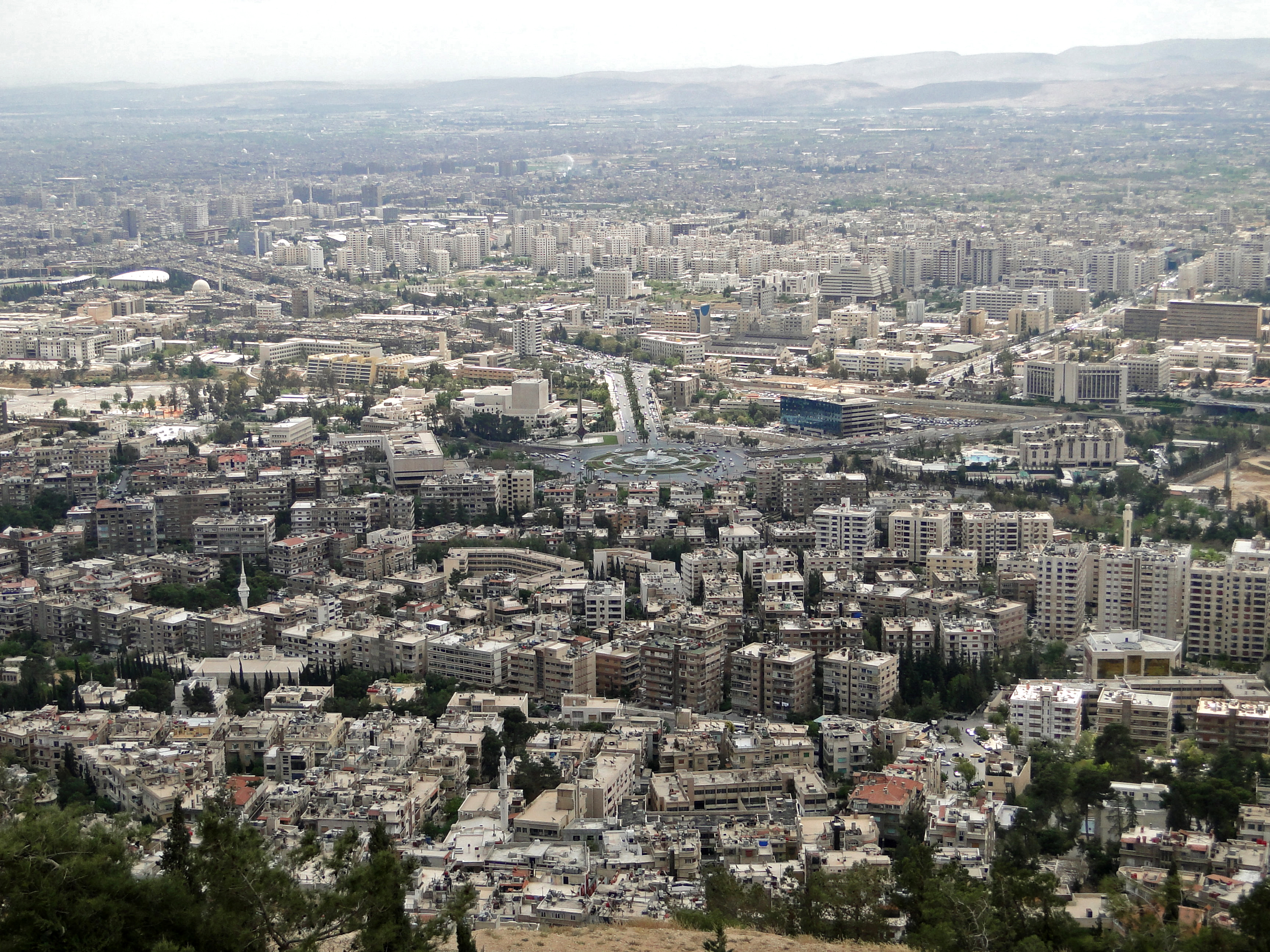 View of Damascus, Syria